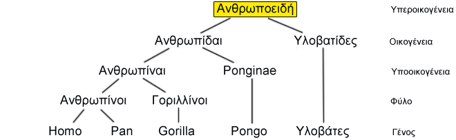 Hominoidea